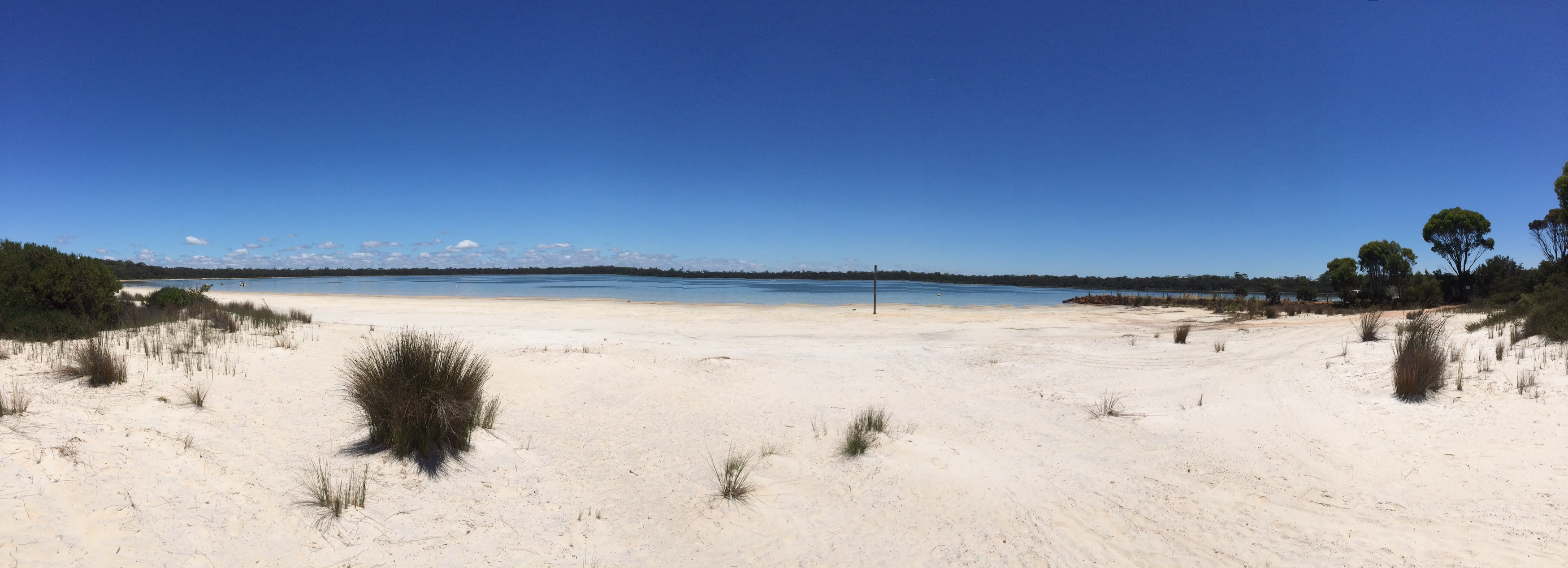 Lake Poorrarecup panorama 2018